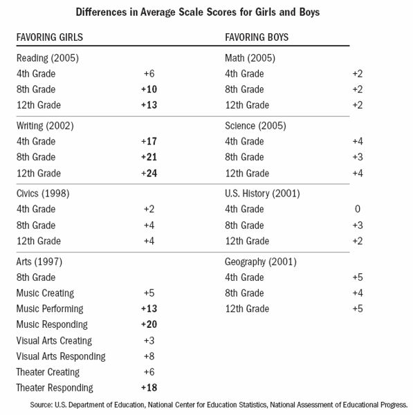 This chart shows that the achievement gap between males and females in the United States is more pronounced in reading and writing than in math and science.